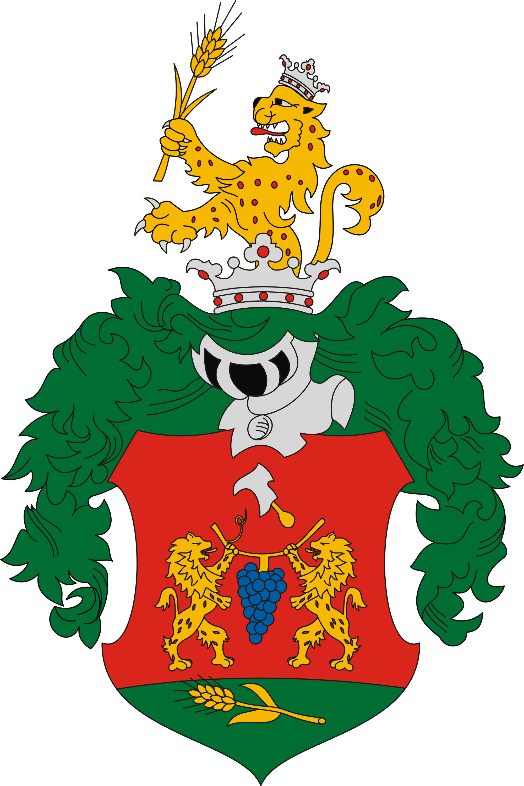 Coat of arms of Győrújbarát, Hungary